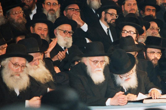 Pictures of Rabbi Shach